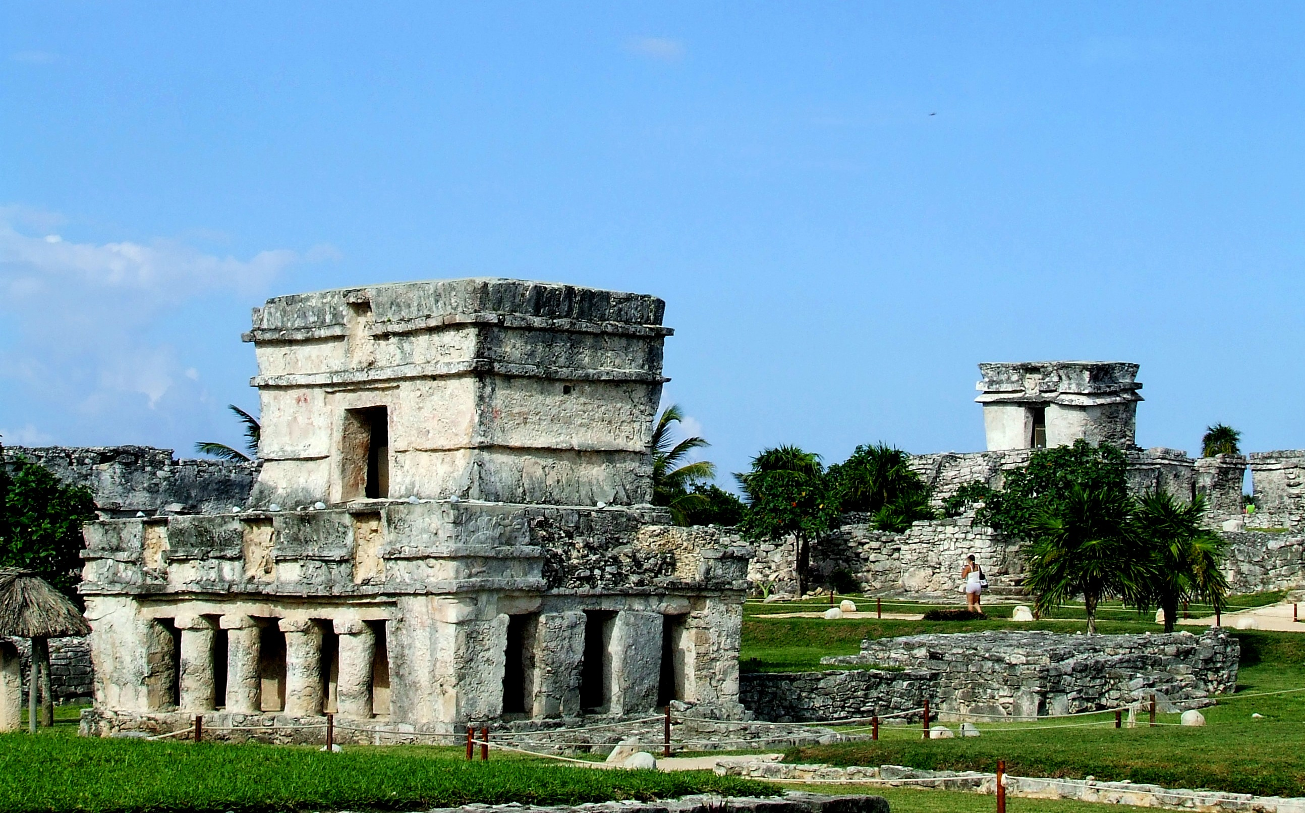 Tulum